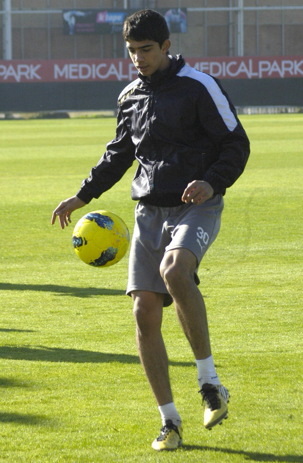 Photo : Murat Özgen